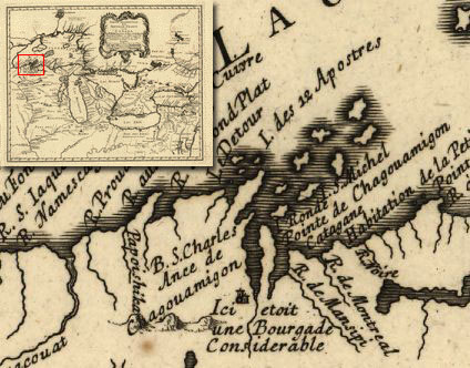 Snippet of French Map showing Chequamegon Bay on Lake Superior with inset of larger map.